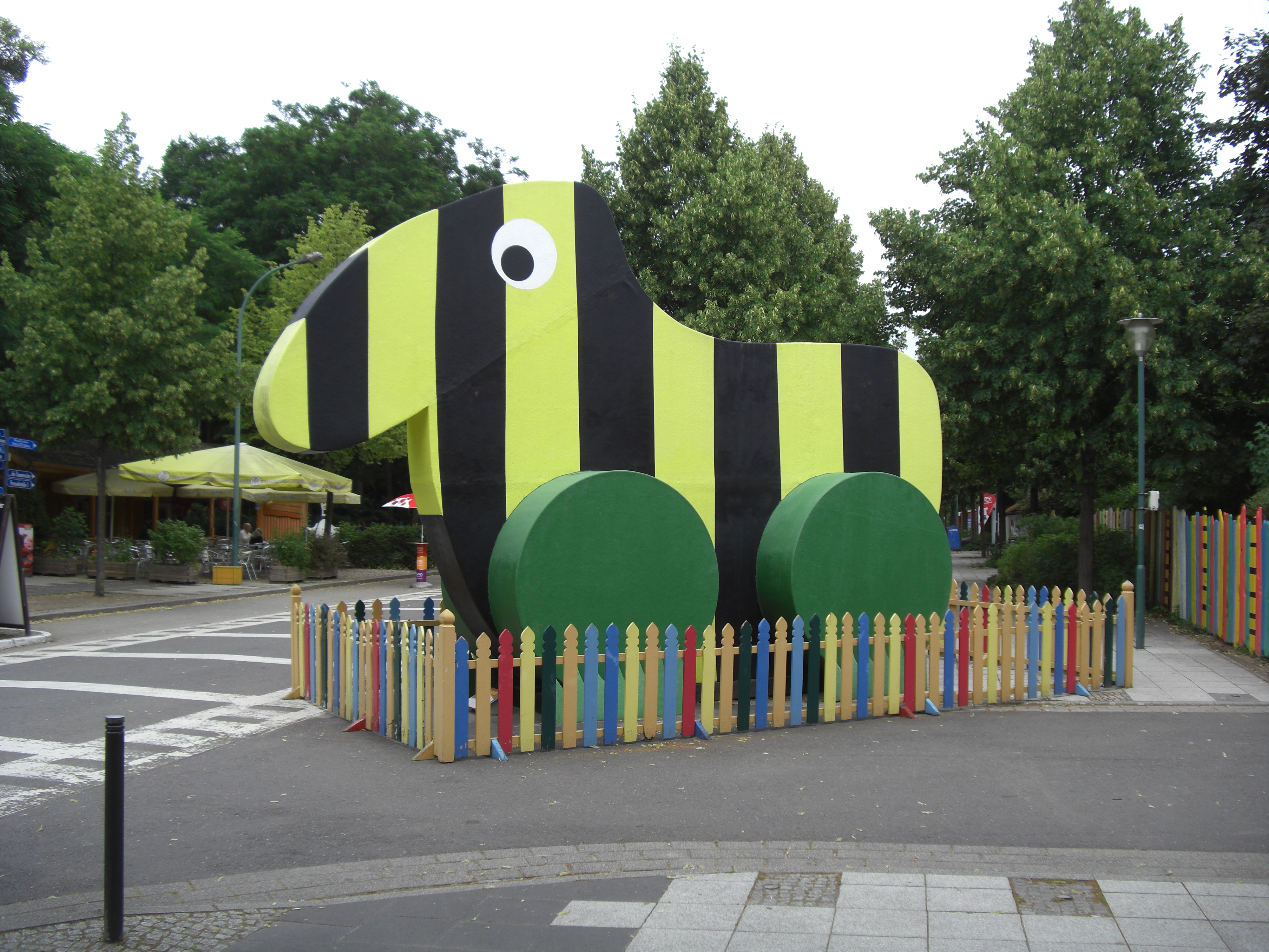 Tigerente